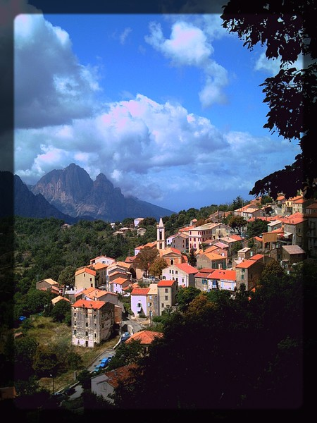 Evisa Corsican village